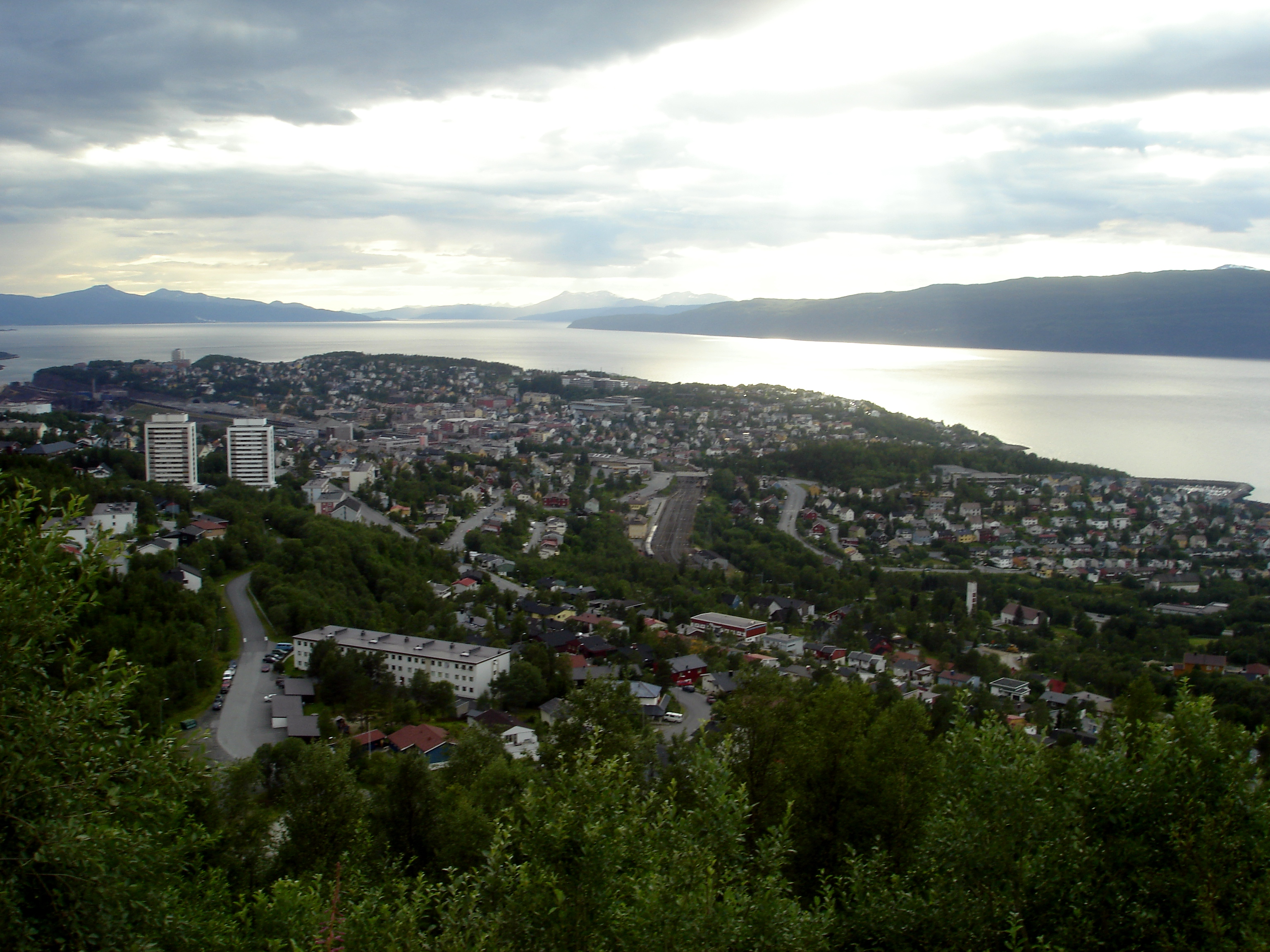 This is a picture taken of the city Narvik, taken from the higest road accessible point in Narvik.